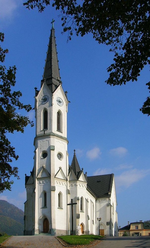 the church of Černova, a part of Ružomberok in Slovakia